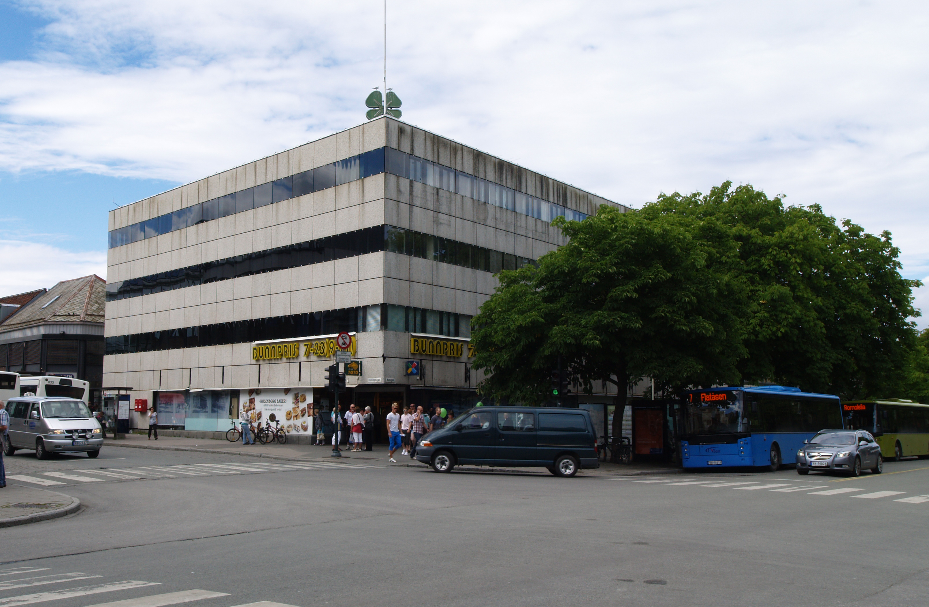 Store of Bunnpris in Trondheim, Norway.